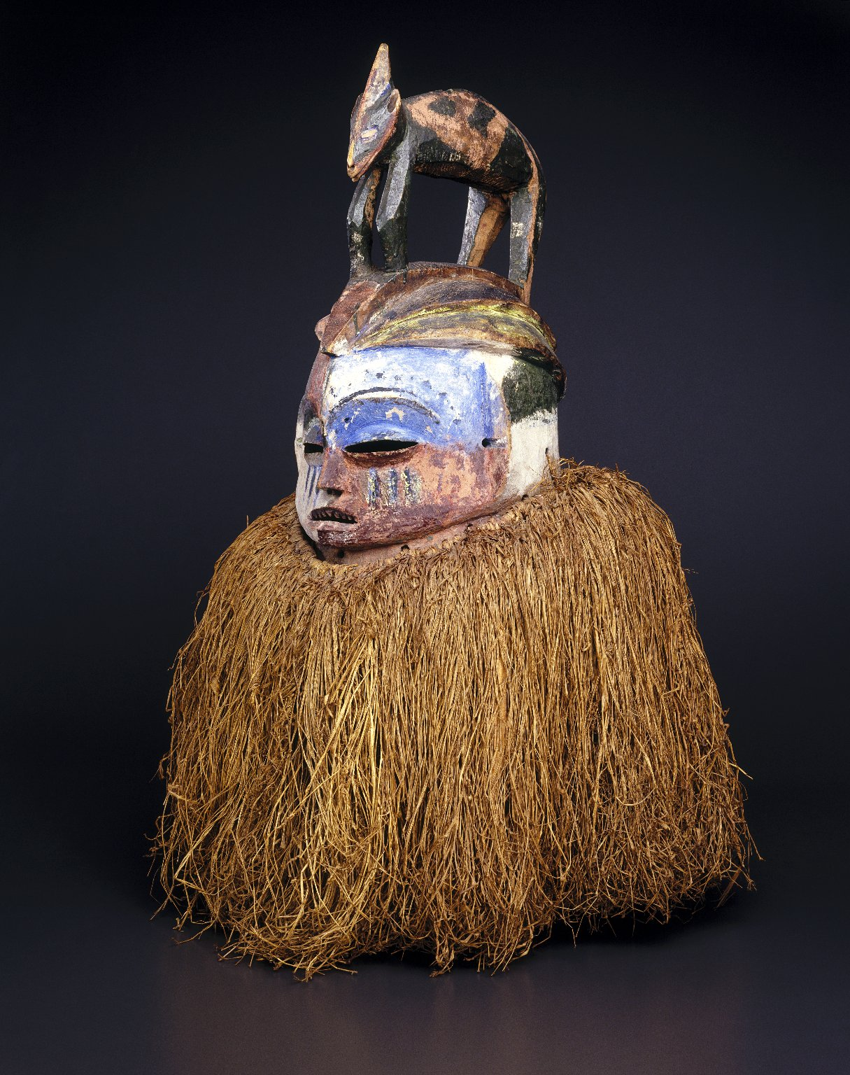 Painted wood mask, surmounted by 4-legged animal, raffia fringe attached to holes at base of mask. Face tilted slightly backwards; mouth is open with upper row of jagged teeth; protruding almond-shaped eyes and painted eyebrows; three vertical paint marks under each eye; each quadrant of face marked by predominant color - green white, blue, red-brown; traces of green-yellow paint on right side. Helmet composed of central crest with two overlapping layers on each side: surmounted by 4-legged animal painted green with horn on top of head. Large split on right side, extending from base to top of head. CONDITION: Blue paint flaking on upper right side of face. Crack on left side of face extends upward from base. Piece missing from left side of helmet; caked substance along right side dry and flaking.